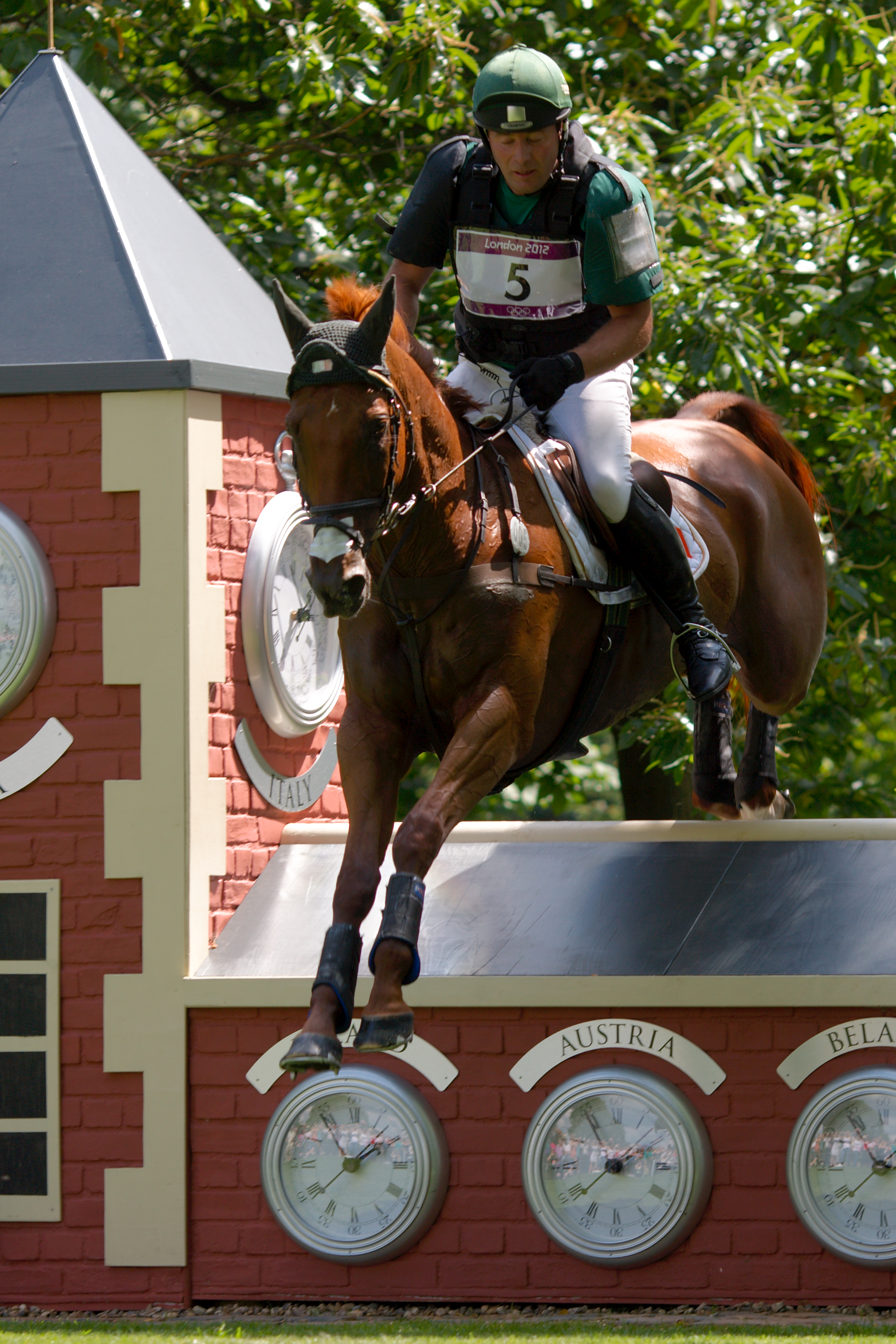 Michael Ryan and Ballylynch Adventure, competing for IRL, at fence 25, during the cross-country phase of the Eventing during the 2012 Olympic Games in Greenwich Park, London.